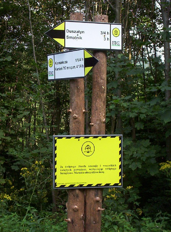 International tourist trail "Following the Good Soldier Švejk". Trail sign in Prełuki, Bieszczady, Poland